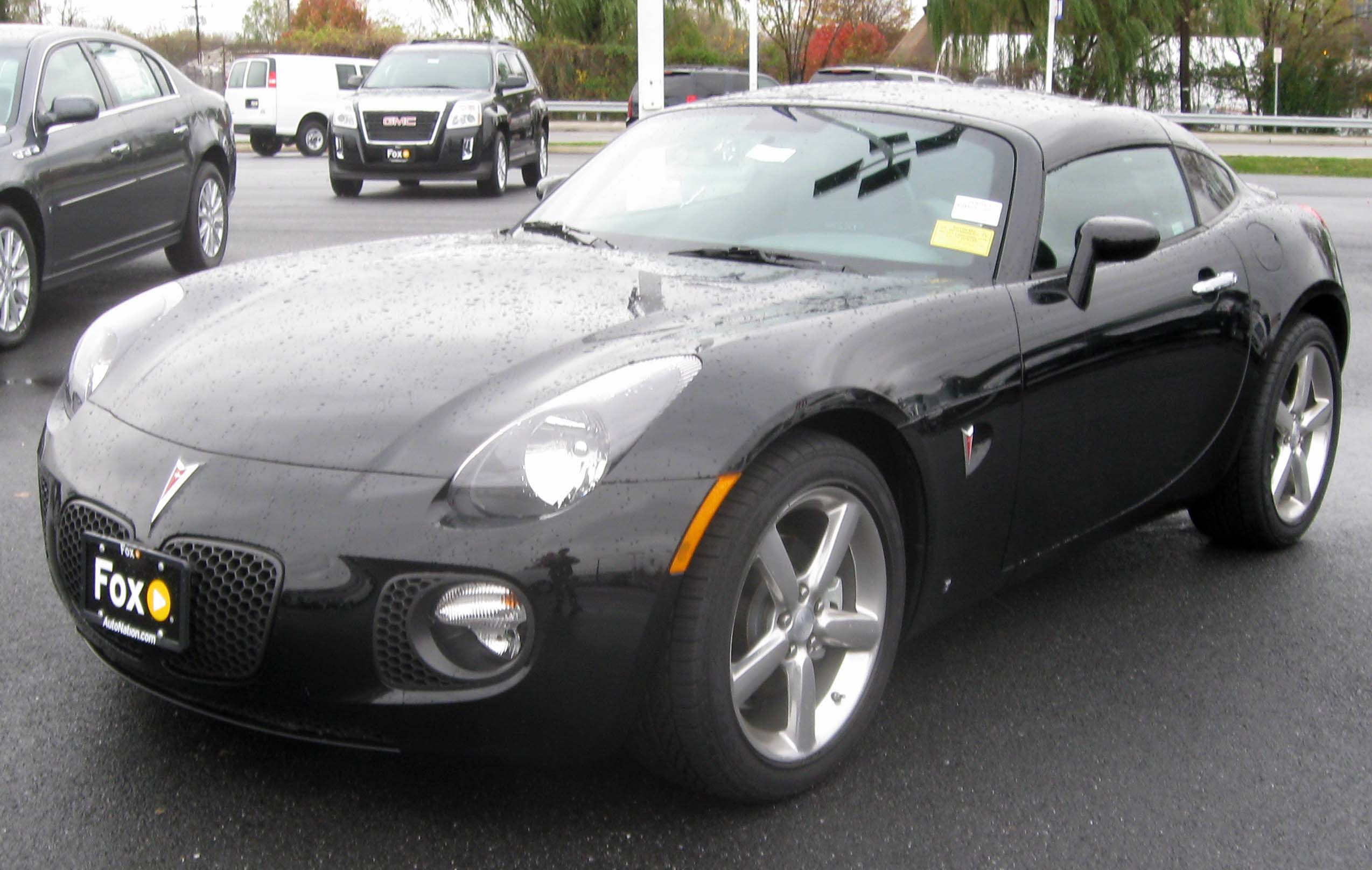 2009 Pontiac Solstice GXP photographed in Laurel, Maryland, USA.